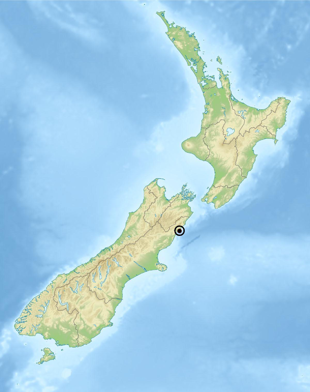 Location map of New Zealand Equirectangular projection, N/S stretching 120 %. Geographic limits of the map: * N: 34.0° S * S: 48.3° S * W: 165.8° E * E: 179.4° E